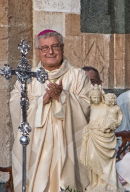 Prato, Italy, Bishop Giovanni Nerbini, Tuscany